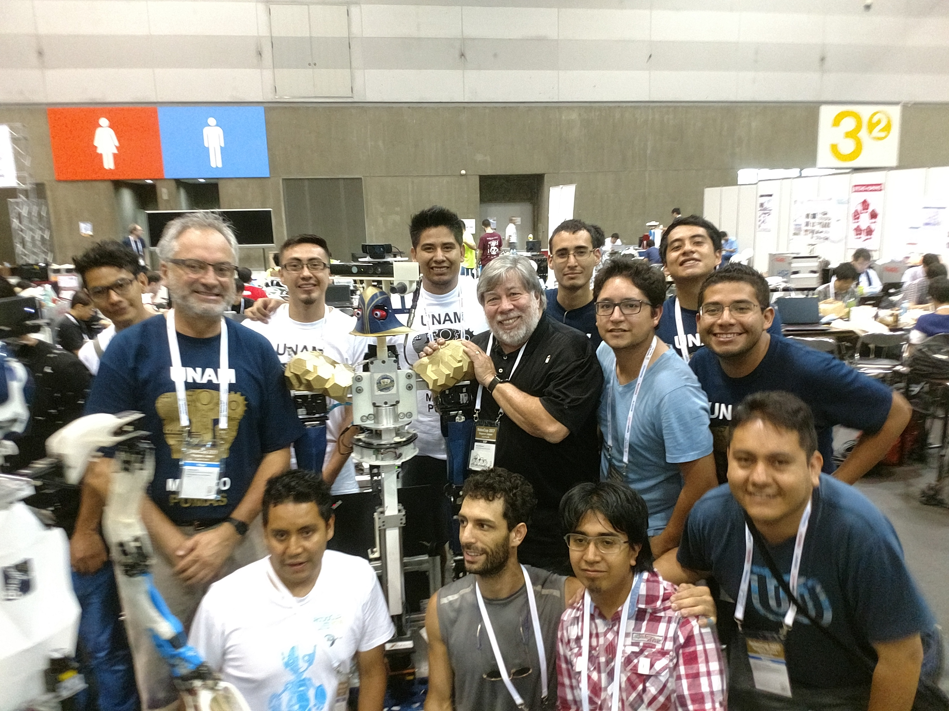 UNAM robotics team at the Robocup with Steve Wozniak and their home service robot Justina.